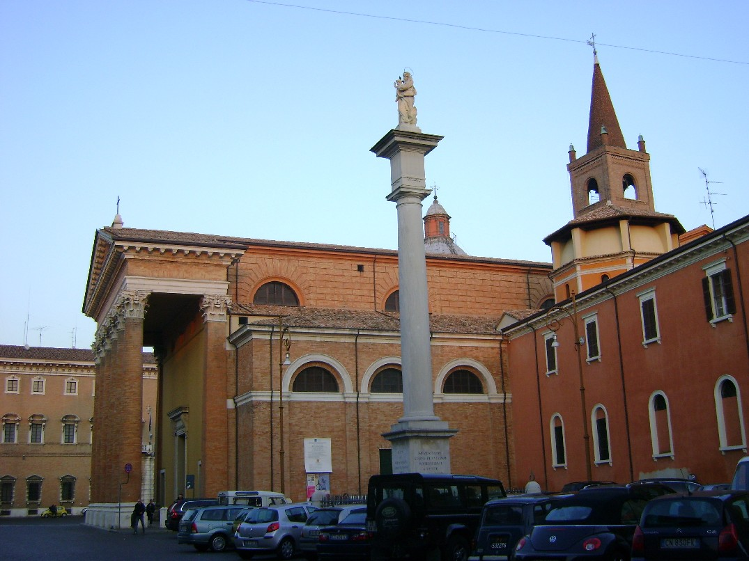 The cathedral of Saint Cross to Forlì